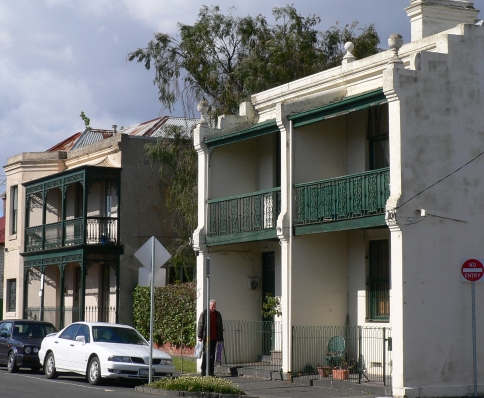 Terrace Housing in Cremorne, Victoria